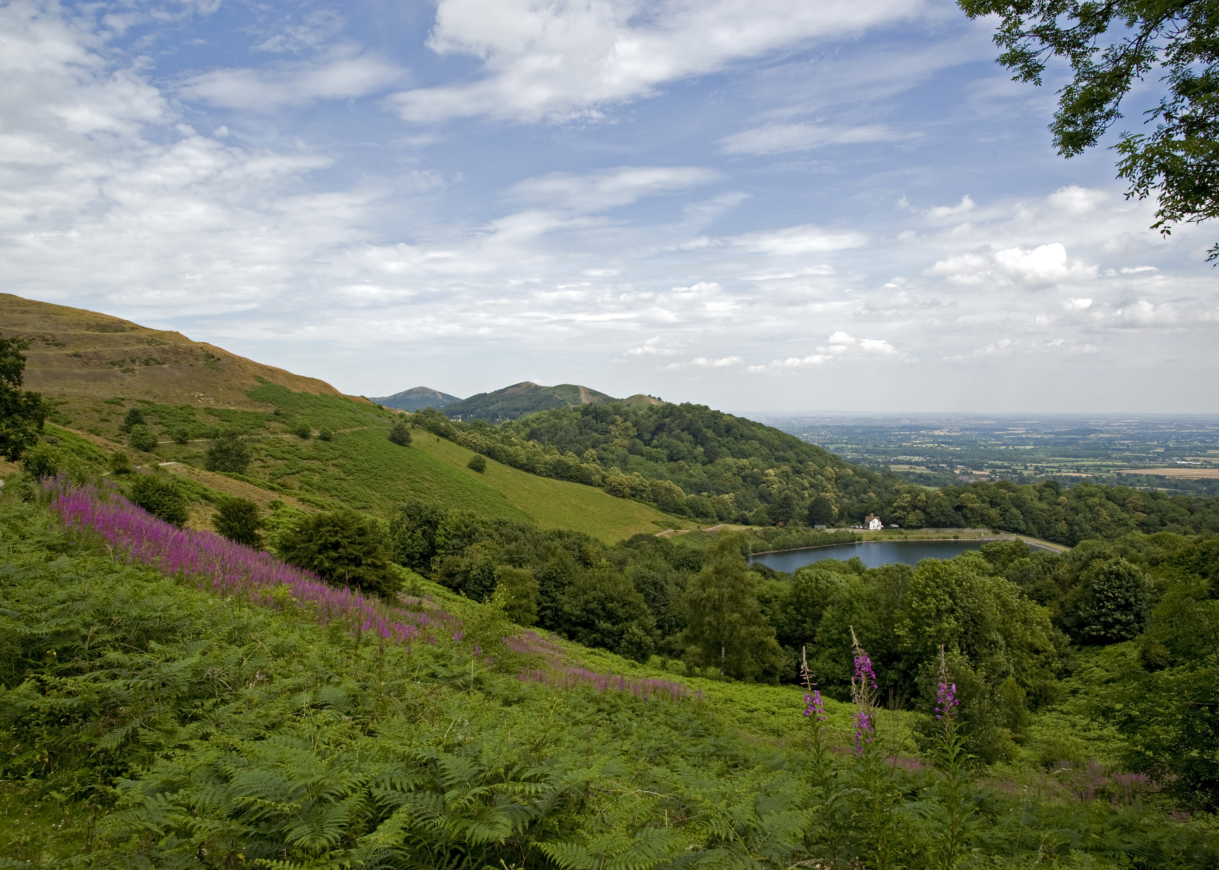 The Malvern Hills (a designatated AONB) as viewed approaching the British Camp on Hereforshire Beacon (Iron Age earth works as seen on the left).